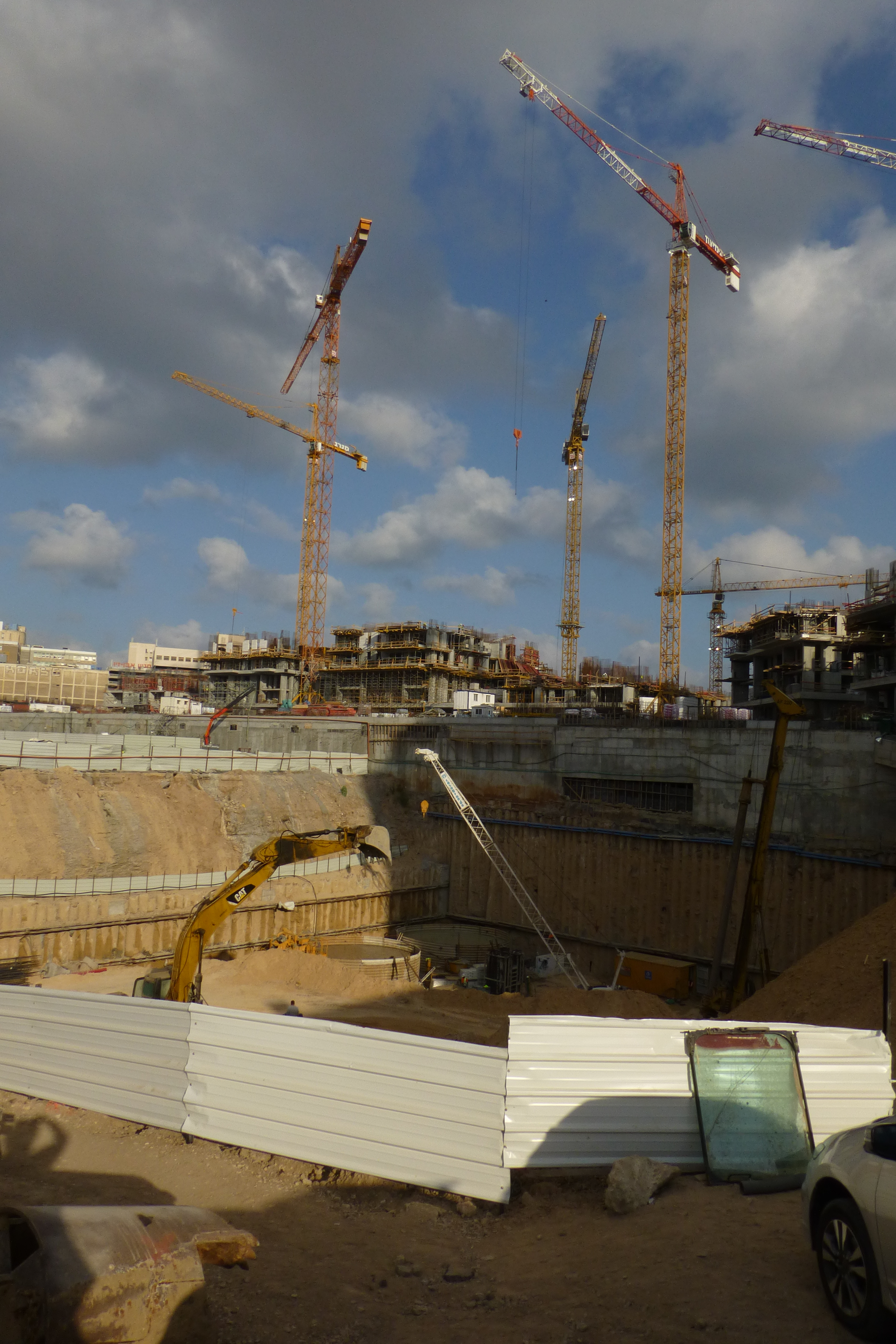 Begin Road, Tel Aviv-Yafo